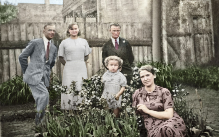 Jadwiga Długoborska (bottom) and her sister Wanda Wujcik (left) in 1935. Photo: family archives.